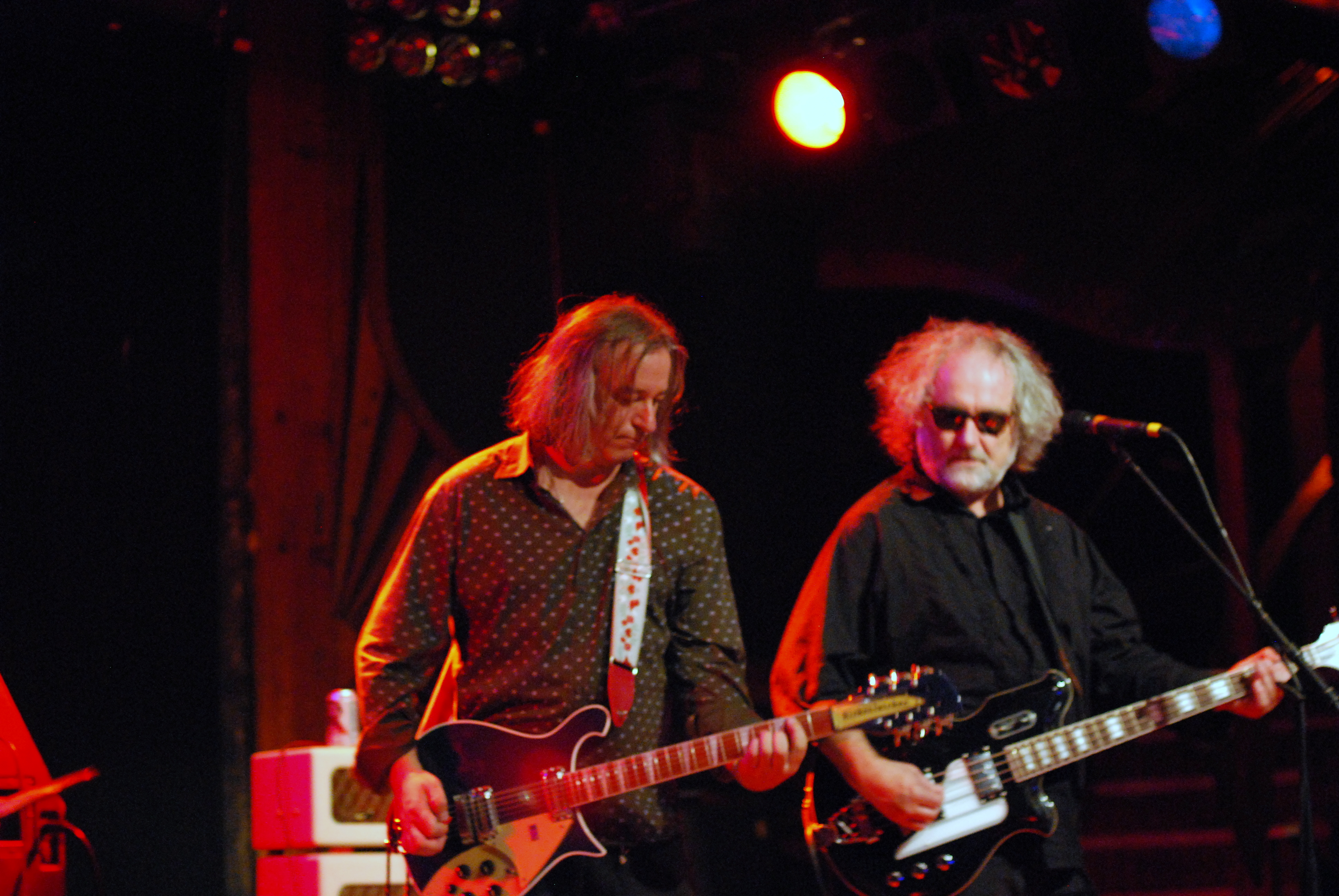 Buck and McCaughey at a The Baseball Project / The Minus 5 / The Steve Wynn IV show